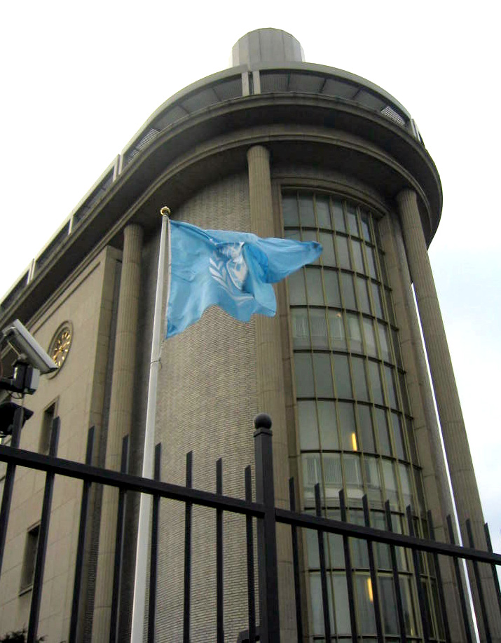 Photo taken by MoRsE